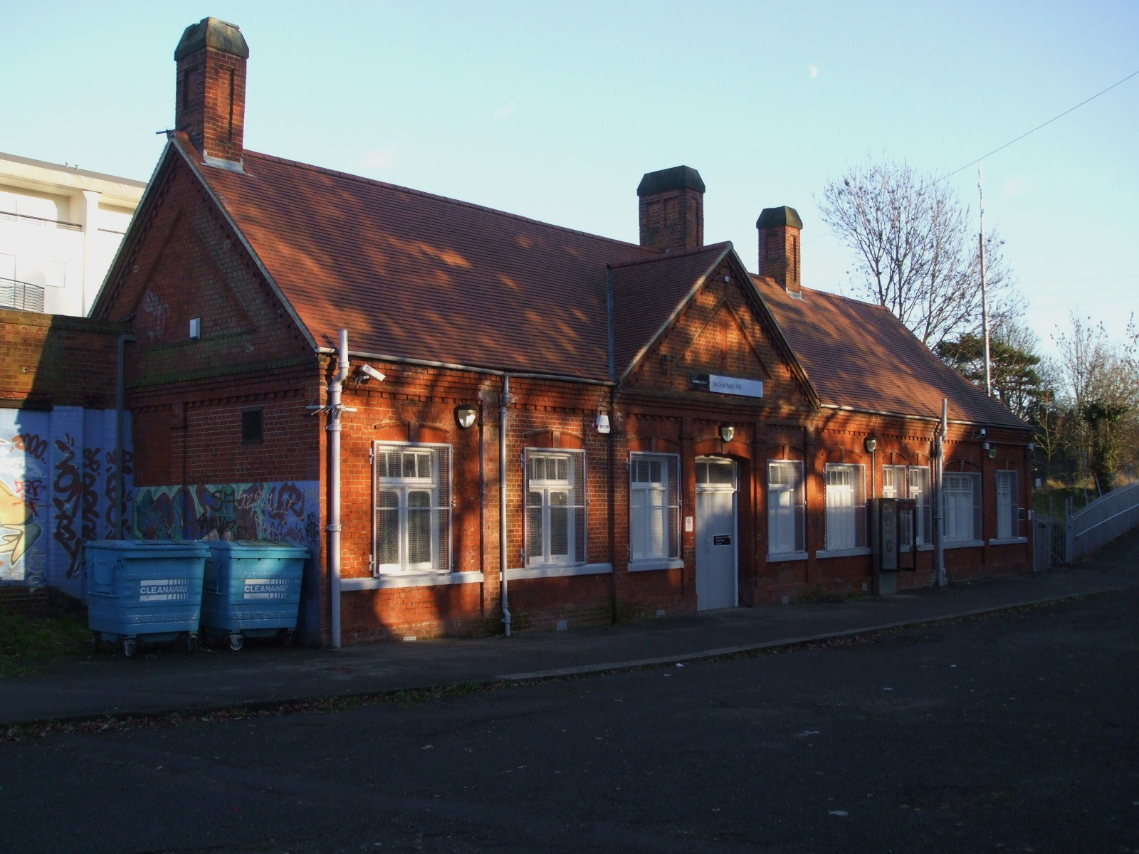 Beckenham Hill station main building, on the London-bound side